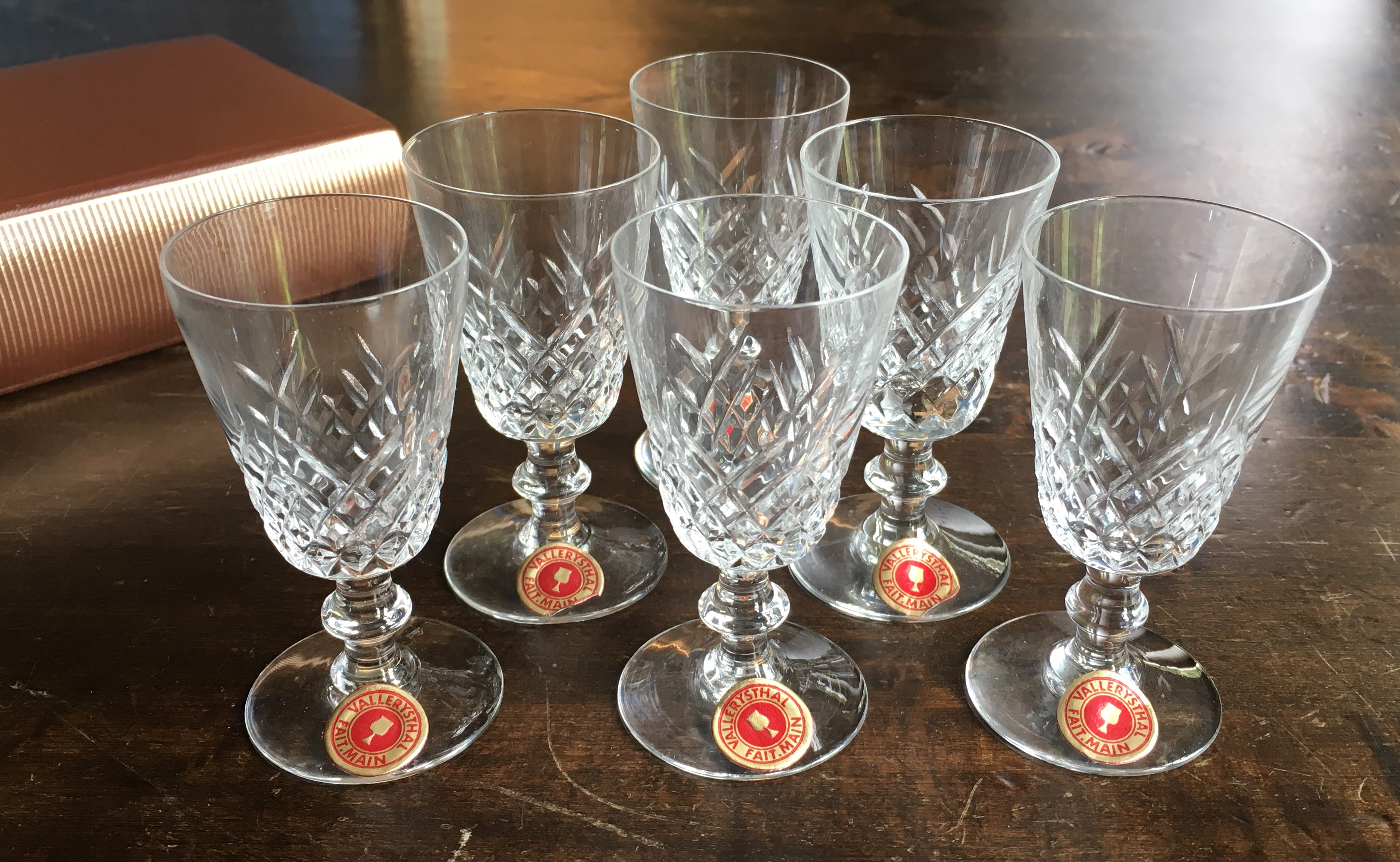 Six liqueur glasses, hand made at Vallérysthal, Lorraine.